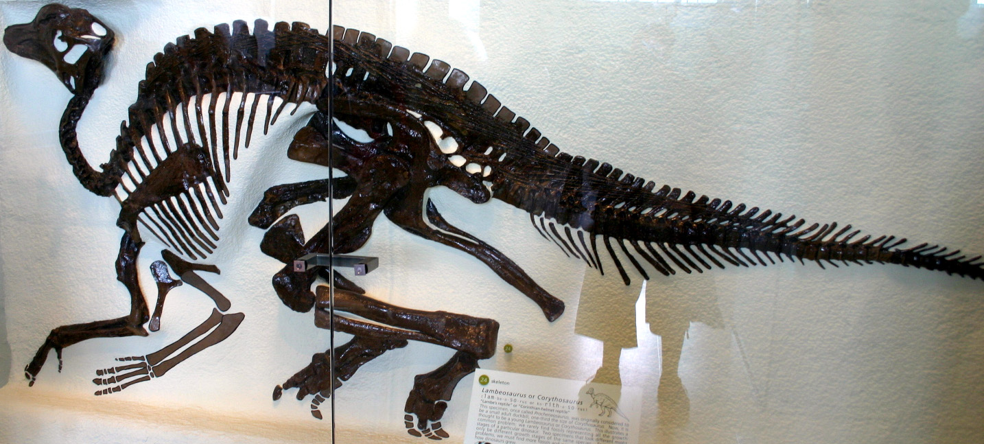 Juvenile lambeosaurine hadrosaur originally referred to Procheneosaurus praeceps, specimen number AMNH 5340, at the American Museum of Natural History, now labelled "Lambeosaurus or Corythosaurus".